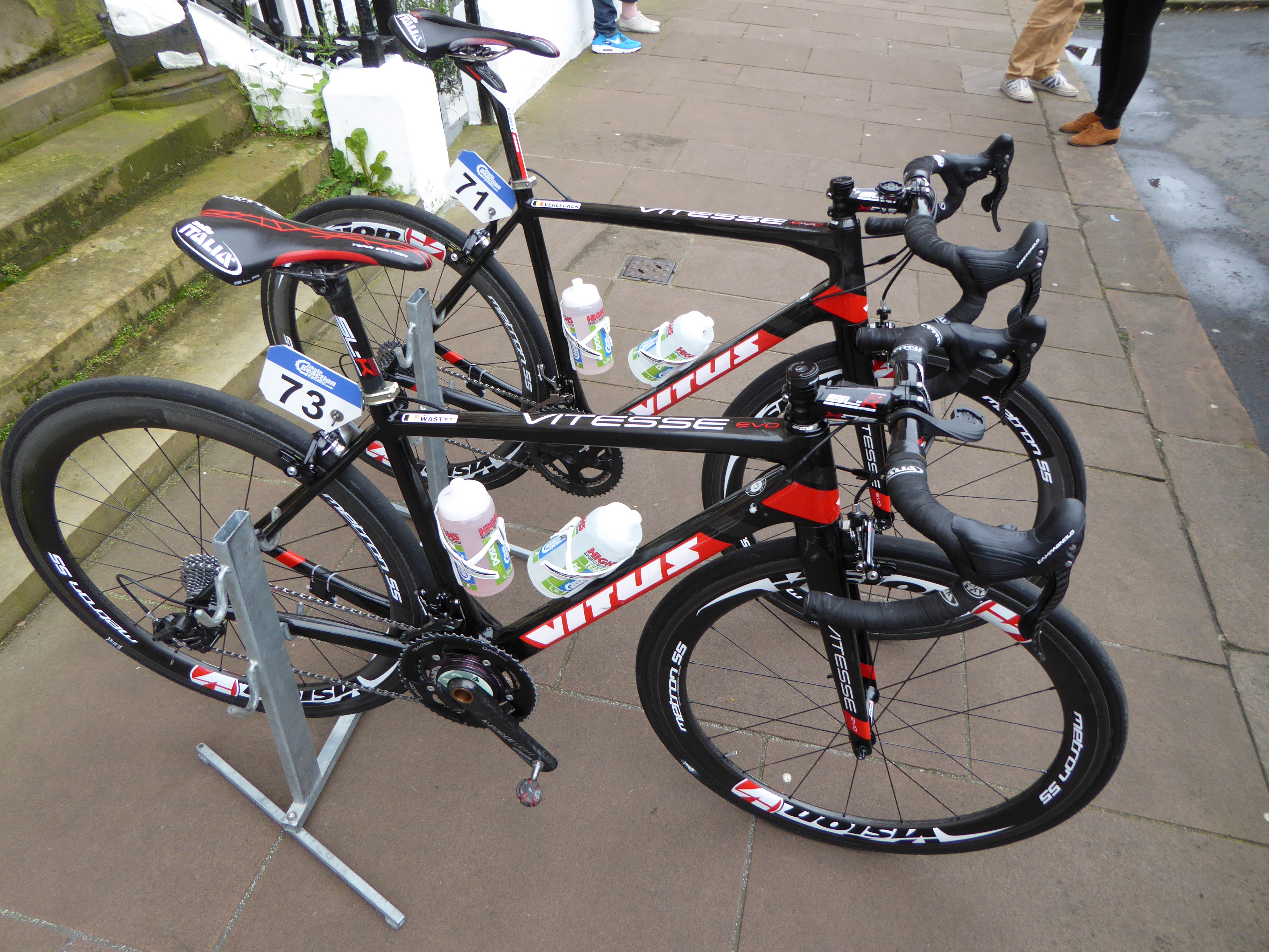 The Vitus bikes of Nicolas Vereecken and Emiel Wastyn of the An Post-Chain Reaction team, pictured before Stage 2 of the 2016 Tour of Britain in Carlisle on 5 September 2016.